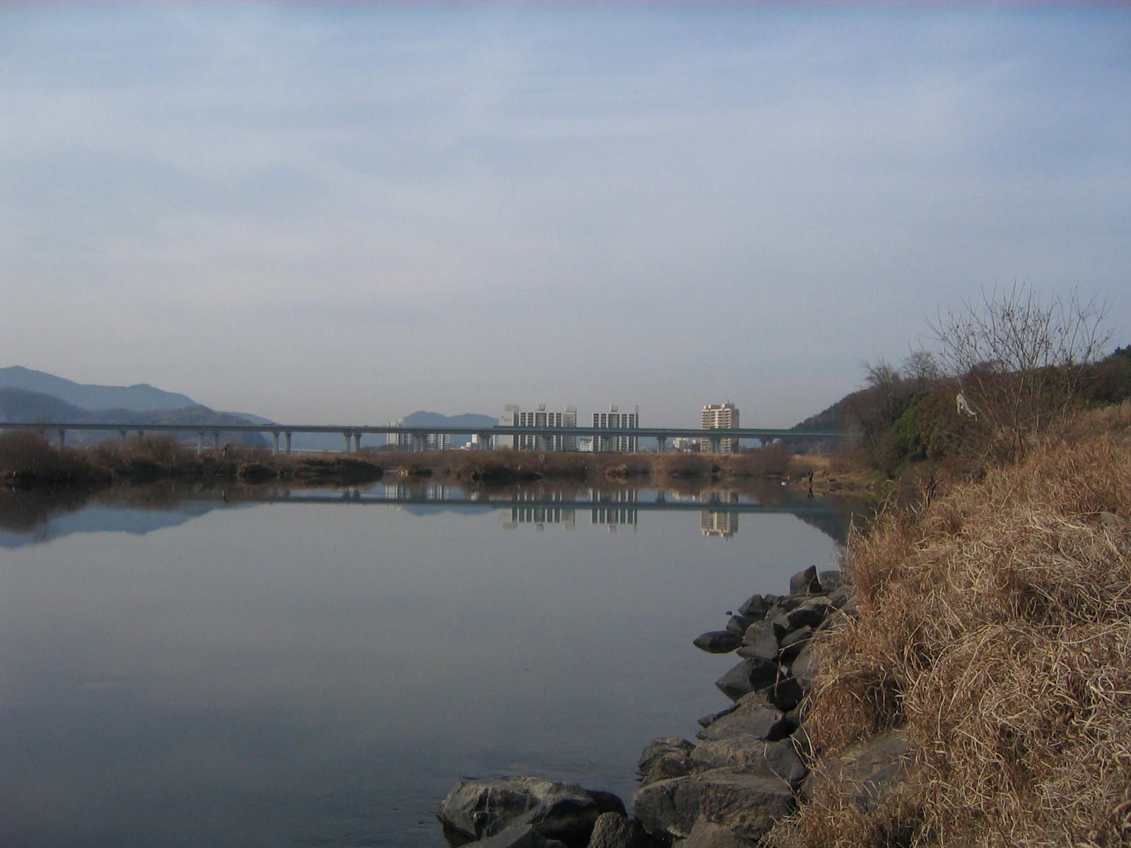 The city center of Miryang, as seen from Nampo-ri, Samnangjin-eup, looking north along the Miryang River.